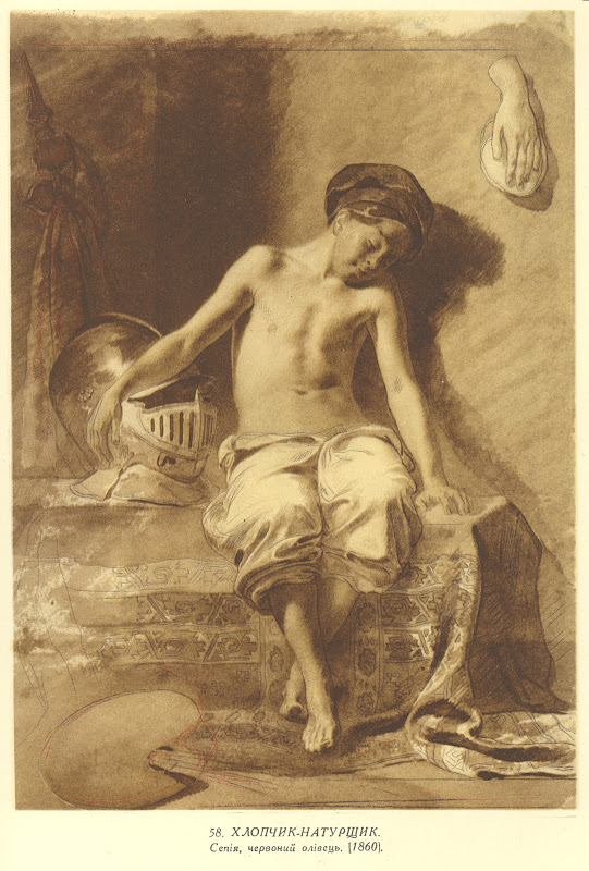 Painting of Taras Shevchenko